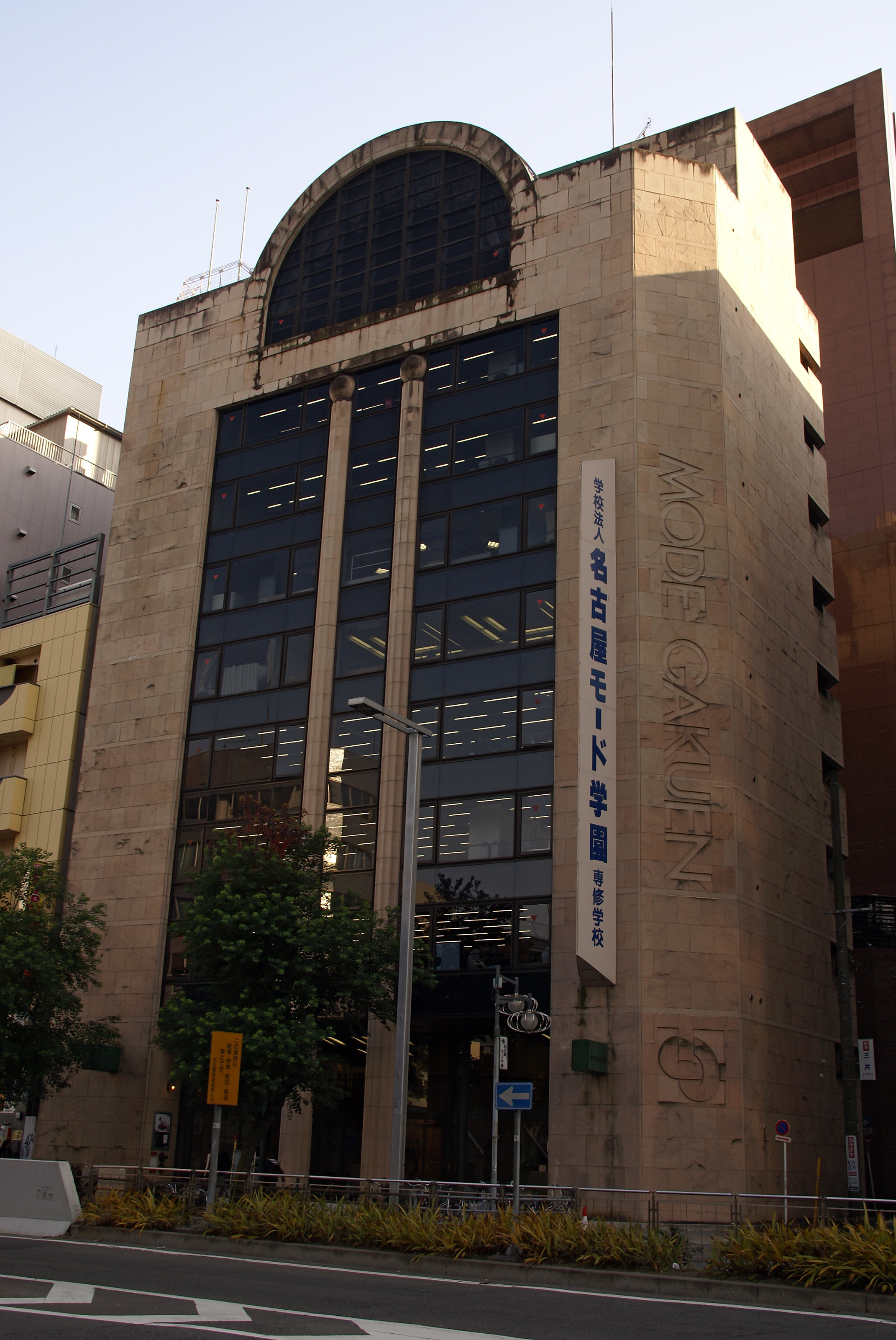 Nagoya Mode Gakuen in Nagoya, Aichi prefecture, Japan